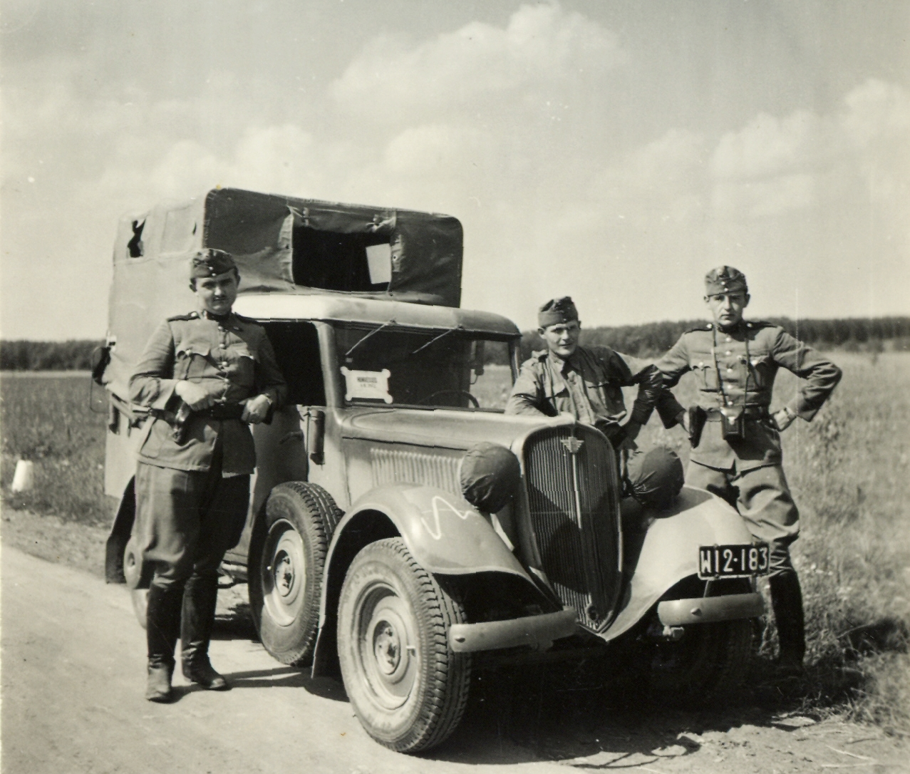 Tags: automobile, number plate, Polish brand, license, Polski Fiat-brand